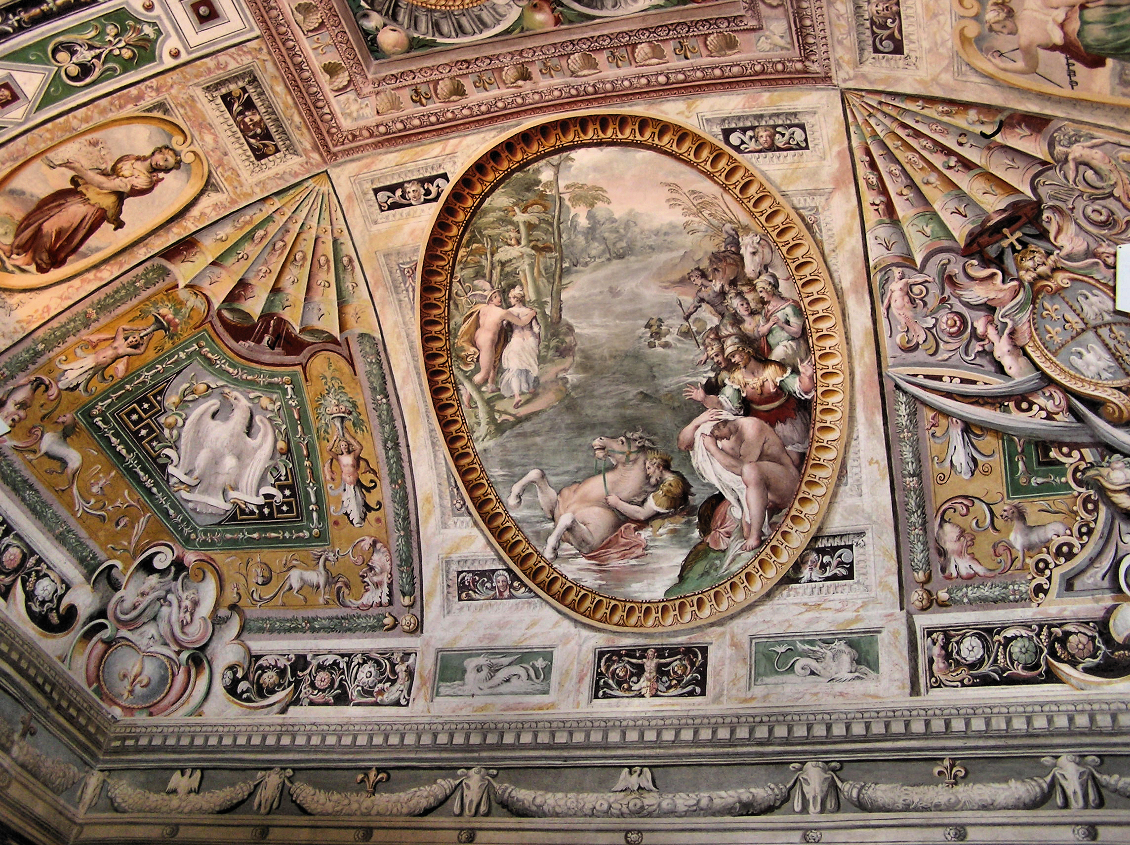 The restored ceiling paintings (frescos?)of the Villa d’Este, Tivoli, near Rome, Italy.